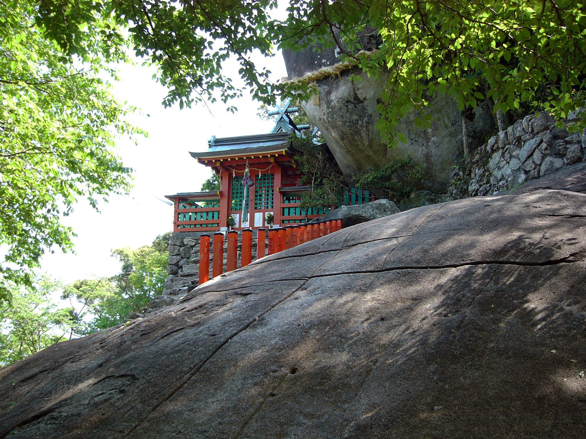 Kamikura-jinja, Shingu, Wakayama prefecture, Japan